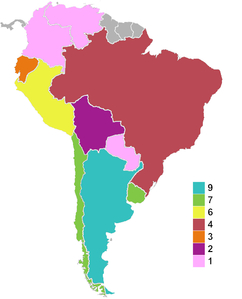 Copa America Hosts